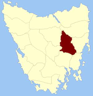 Location of the land district (formerly county) within Tasmania.